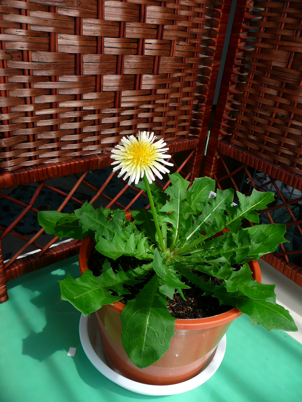 cream-flowering Japanese dandelion(Taraxacum denudatum H. Koidz.) Japanese name is "oku-usugi tanpopo".("Tanpopo" means dandelion)